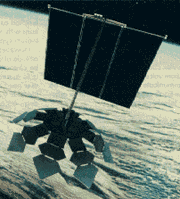 A screen shot of one of many Teledesic satellites responsible for mobile communication and wireless Internetworking. Source: Mission and Spacecraft Library